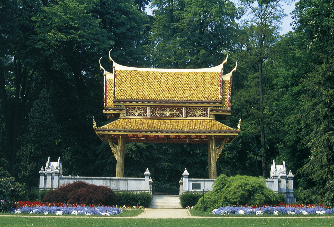 Siamesischer Tempel (»Thai Sala «) im Kurpark Bad Homburg / Siamese Temple (»Thai Sala«) pavilion, in the spa gardens Bad Homburg